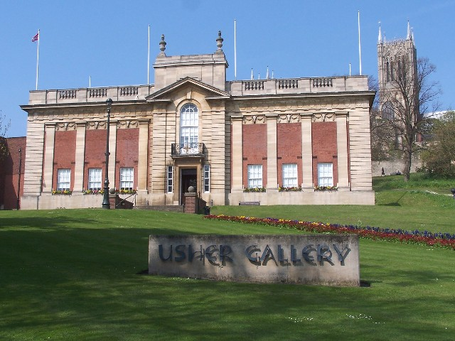 The Usher Gallery with Cathedral in background